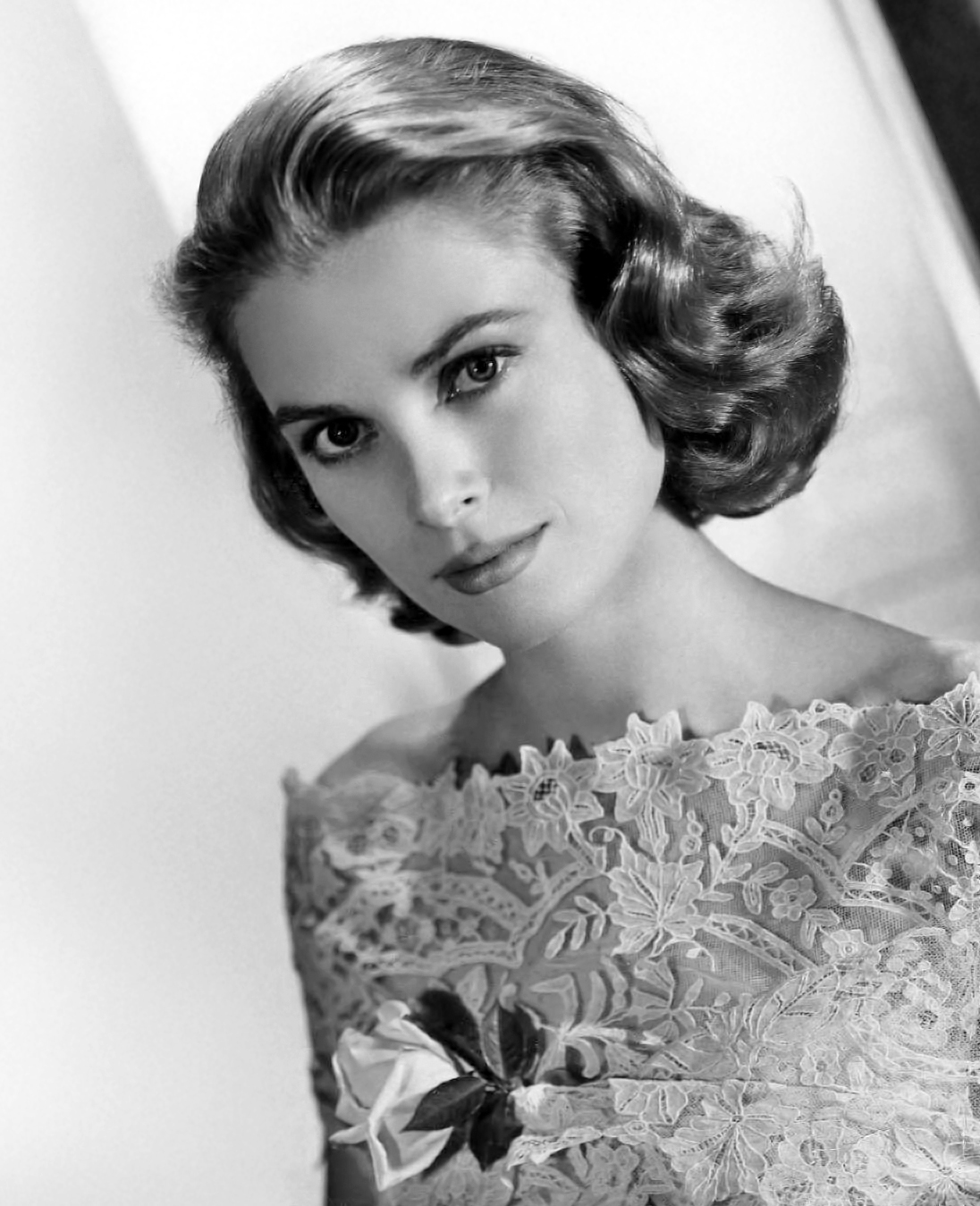 Photo of Grace Kelly.